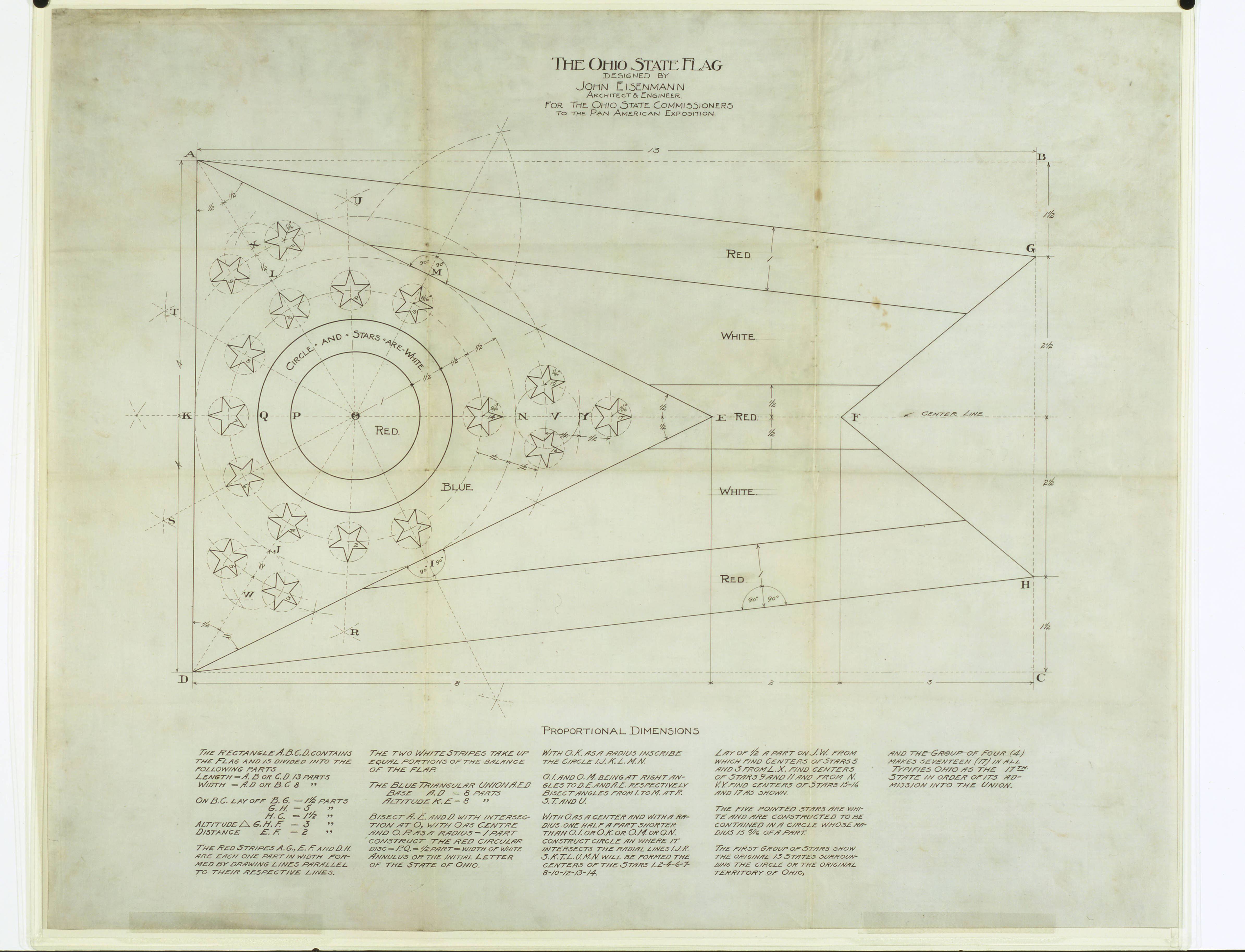 "The Ohio State Flag, Designed by John Eisenmann, Architect & Angineer. For the Ohio State Commissioners to the Pan American Exposition."